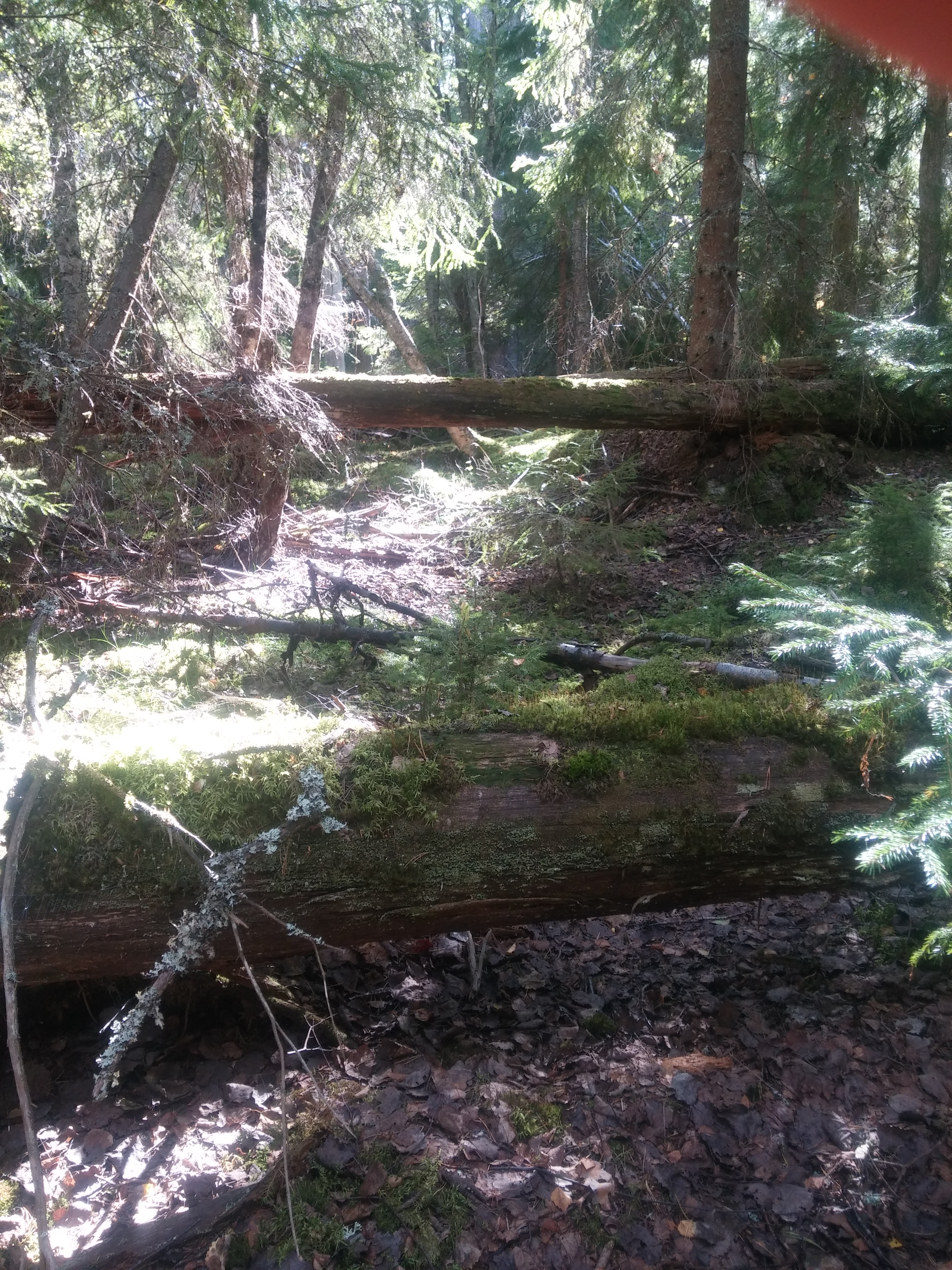 The old forest in Erikslunds naturreservat offers tranquility, some exercise and tall trees.